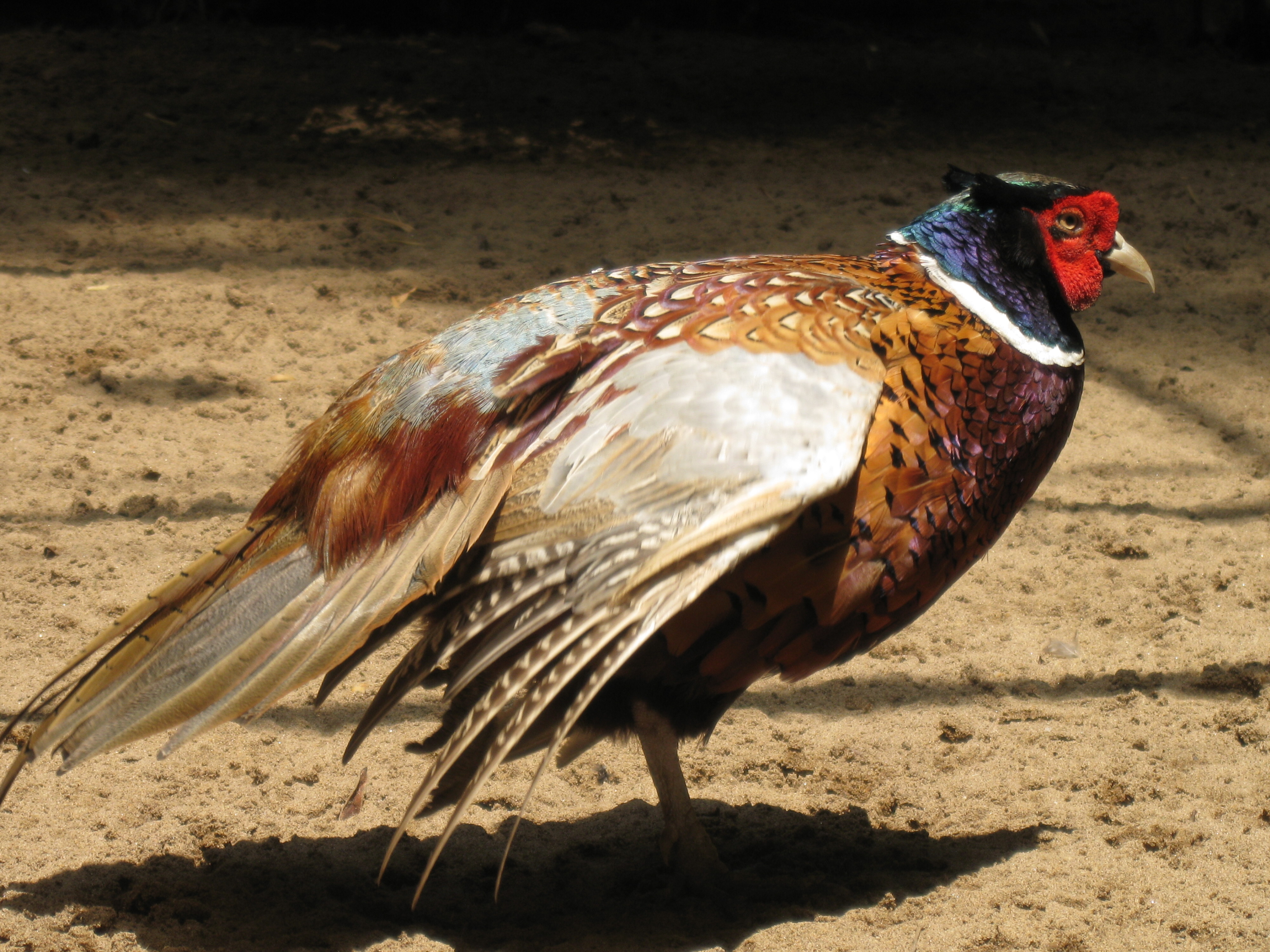 Phasianus colchicus, Saigon Zoo and Botanical Gardens.